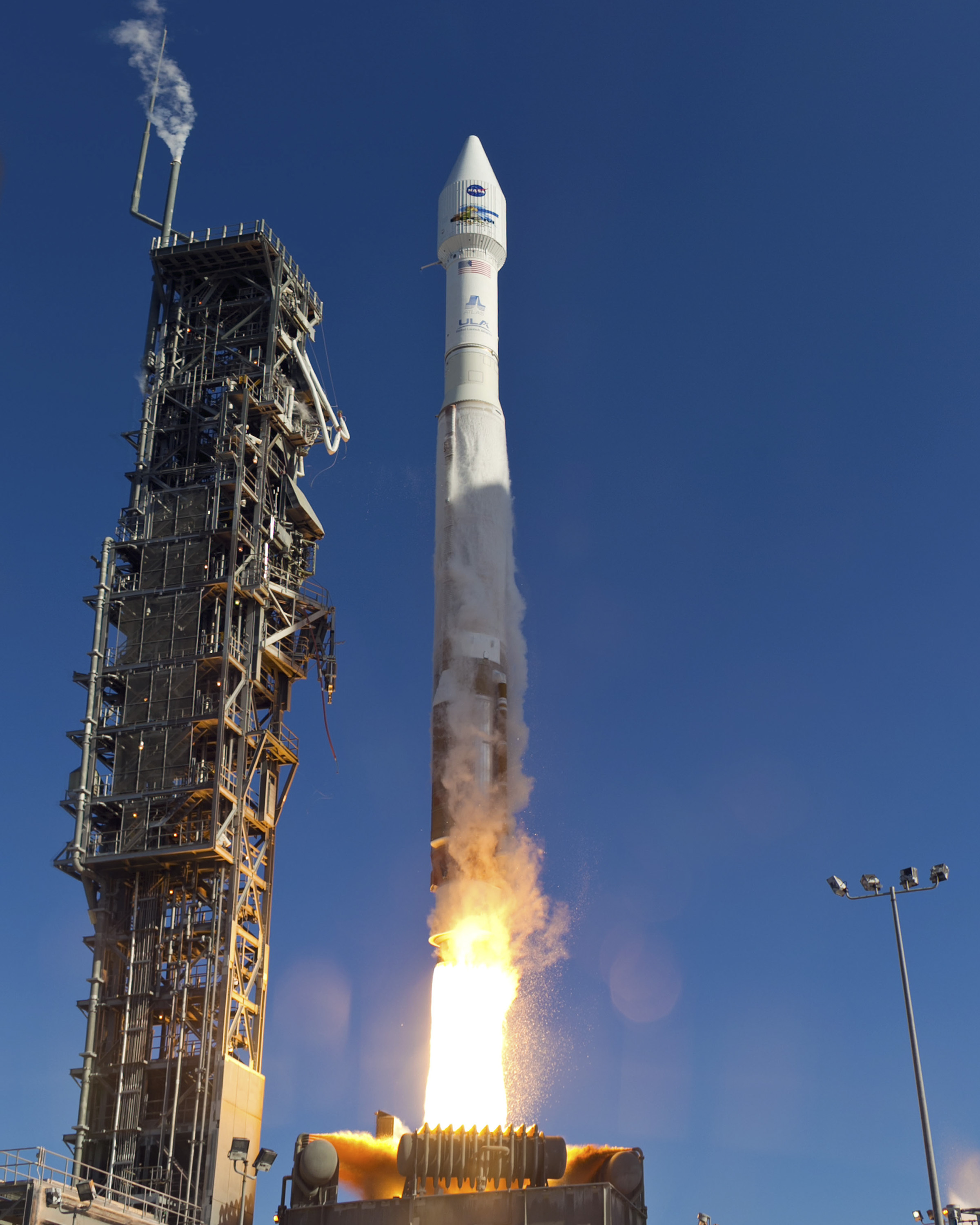 VANDENBERG AFB, Calif. -- The Landsat Data Continuity Mission spacecraft lifted off at 1:02 p.m. EST, 10:02 a.m. PST) [sic] atop a United Launch Alliance Atlas V rocket from Space Launch Complex 3 at California's Vandenberg Air Force Base. The Landsat Data Continuity Mission LDCM is the future of Landsat satellites. It will continue to obtain valuable data and imagery to be used in agriculture, education, business, science, and government. The Landsat Program provides repetitive acquisition of high resolution multispectral data of the Earth's surface on a global basis. The data from the Landsat spacecraft constitute the longest record of the Earth's continental surfaces as seen from space. It is a record unmatched in quality, detail, coverage, and value. For more information, visit